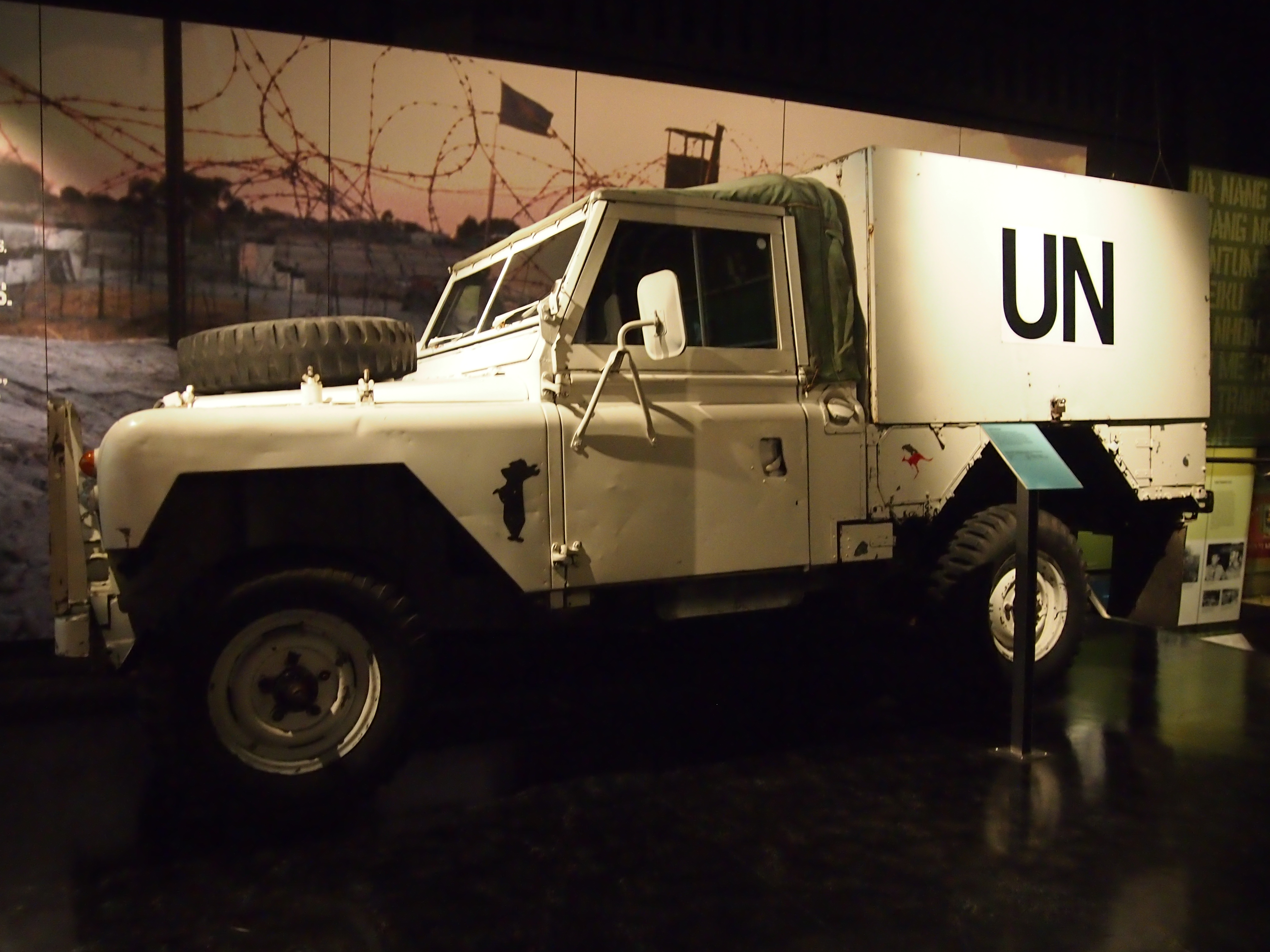 An Australian Army land rover which was deployed to Namibia during UNTAG on display at the Australian War Memorial